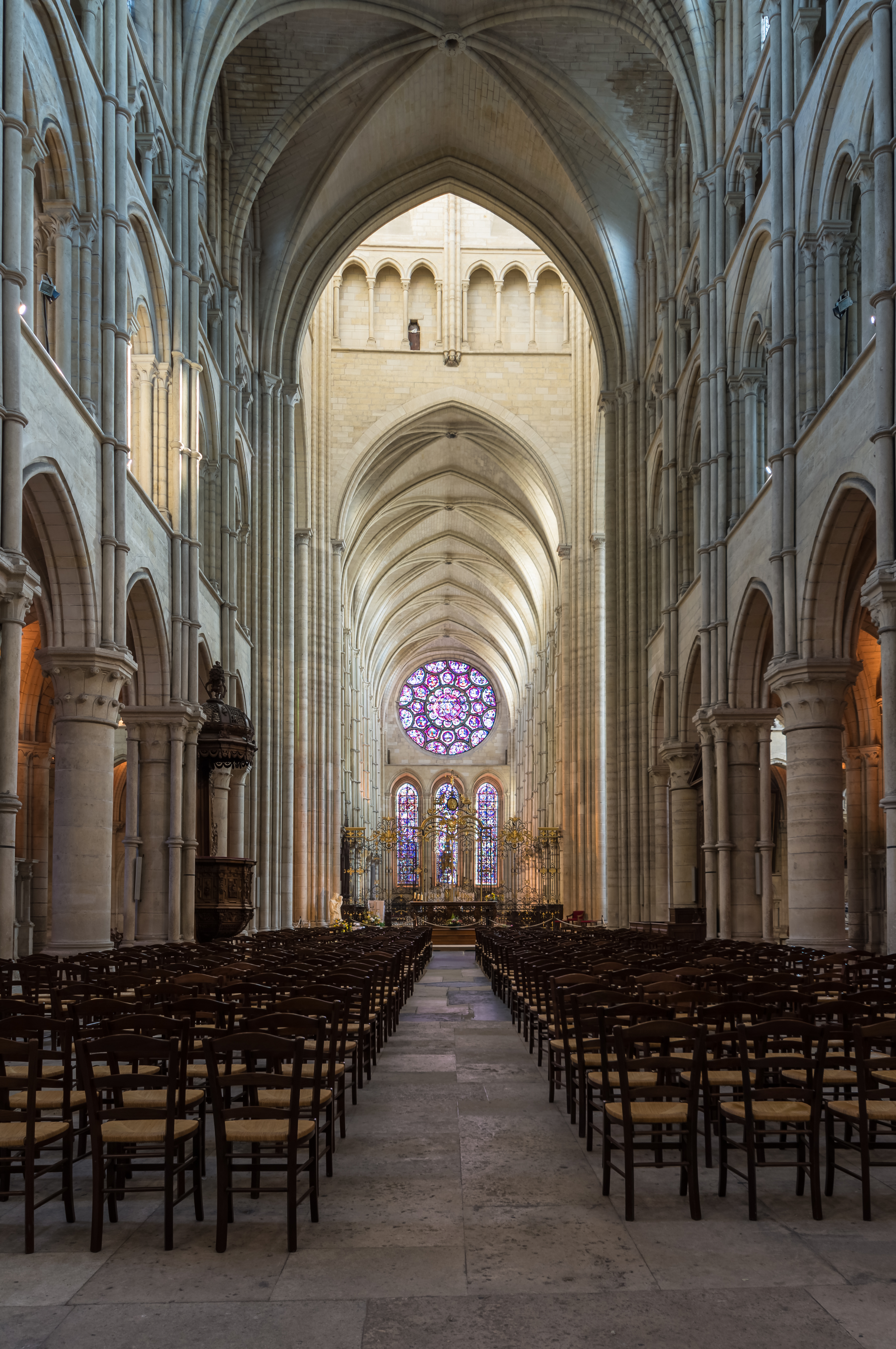 Interior of Laon Cathedral Notre-Dame, Picardy, France It is indexed in the Base Mérimée, a database of architectural heritage maintained by the French Ministry of Culture, under the references PA00115710 and cathédrale .